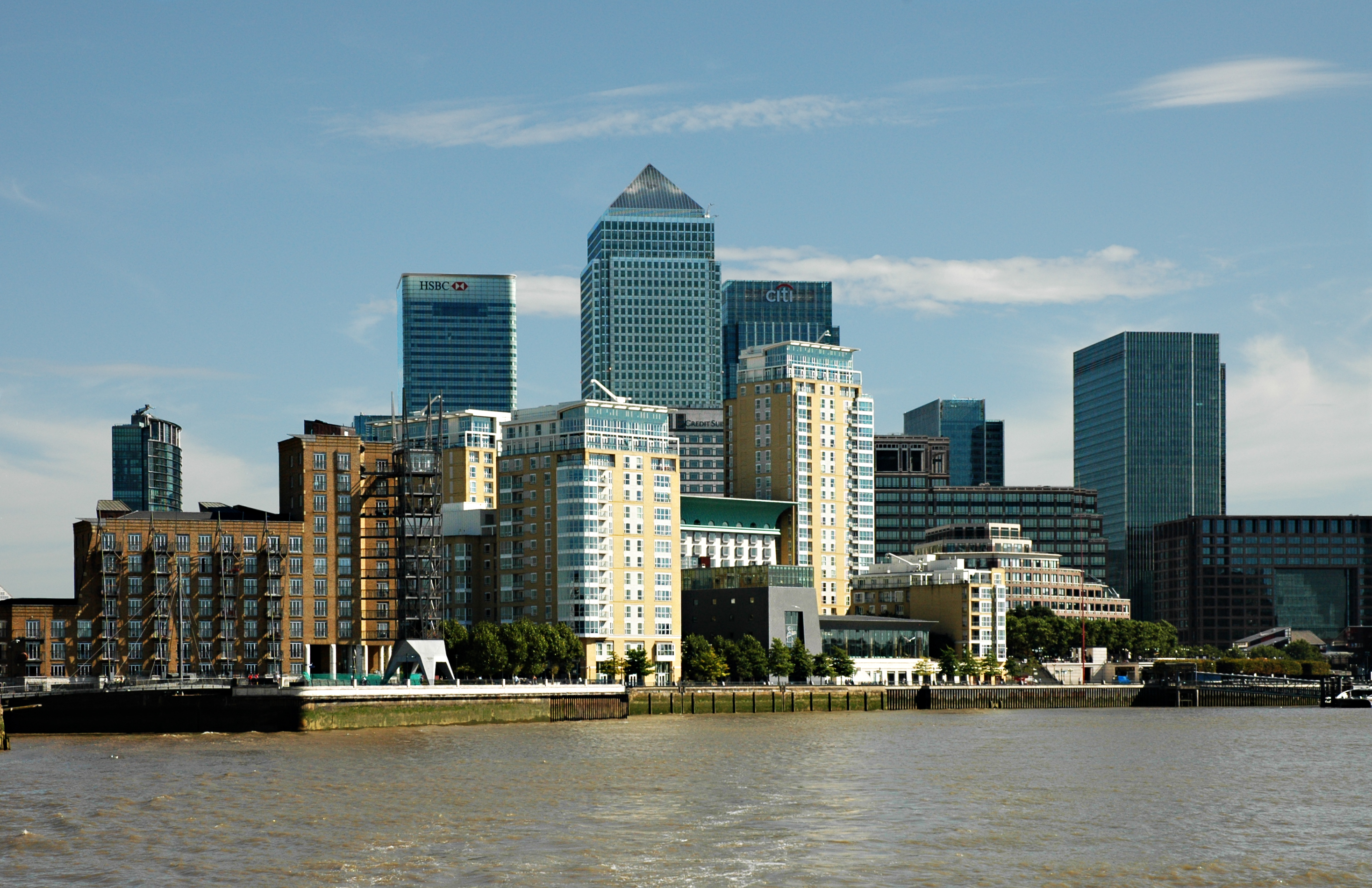 Canary Wharf, London, from river Thames